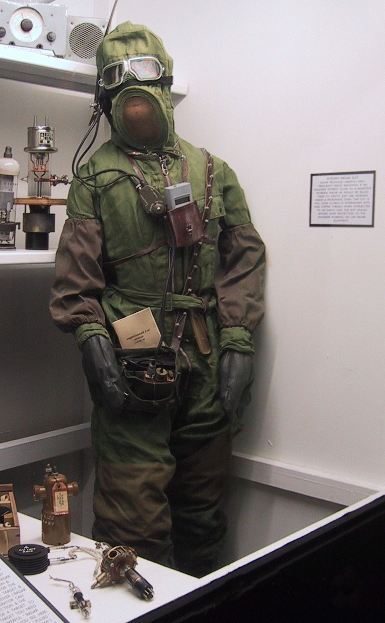 Russian "Radar Suit" at Hack Green Nuclear Bunker Museum For engineers to work in areas with high RF fields.